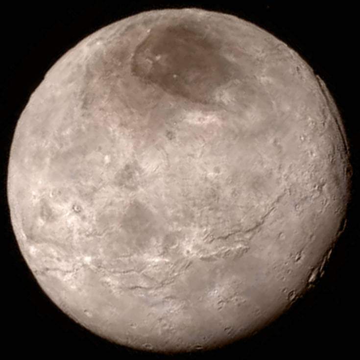 Charon, taken by New Horizons late on 13 July 2015